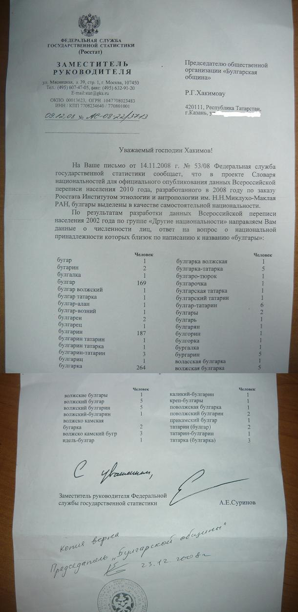 Volga Bulgarians 2002!